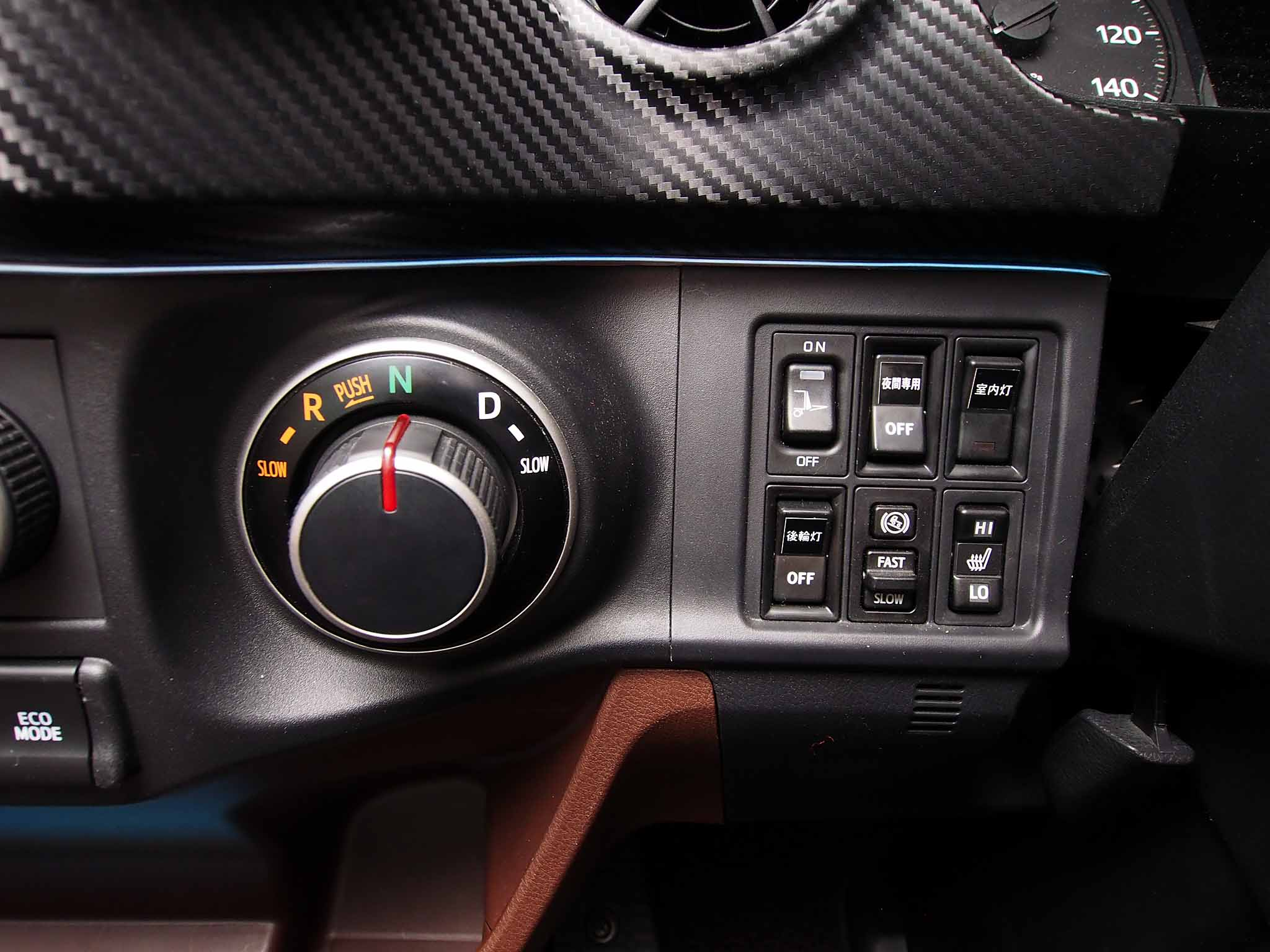 "Pro Shift" mechanical automatic transmission select dial for Hino Ranger FD2A series.